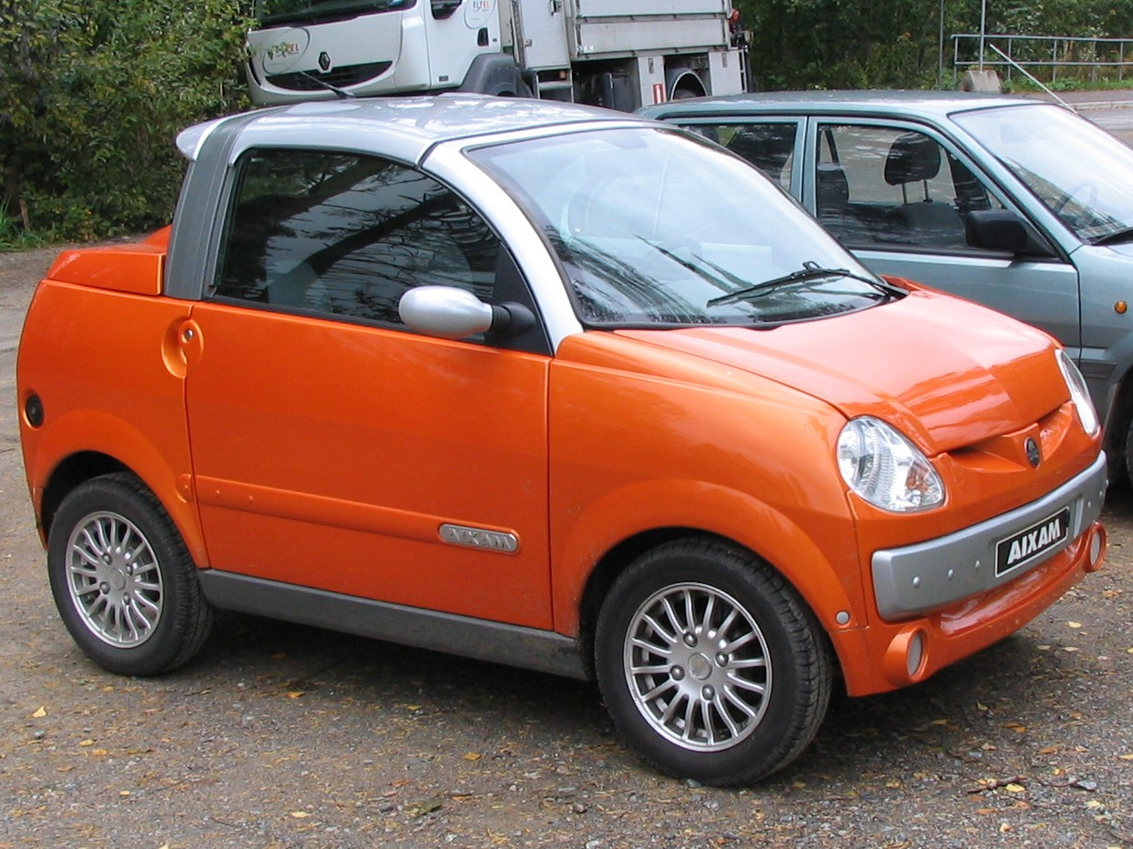 Aixam Scouty S halfcar/microcar